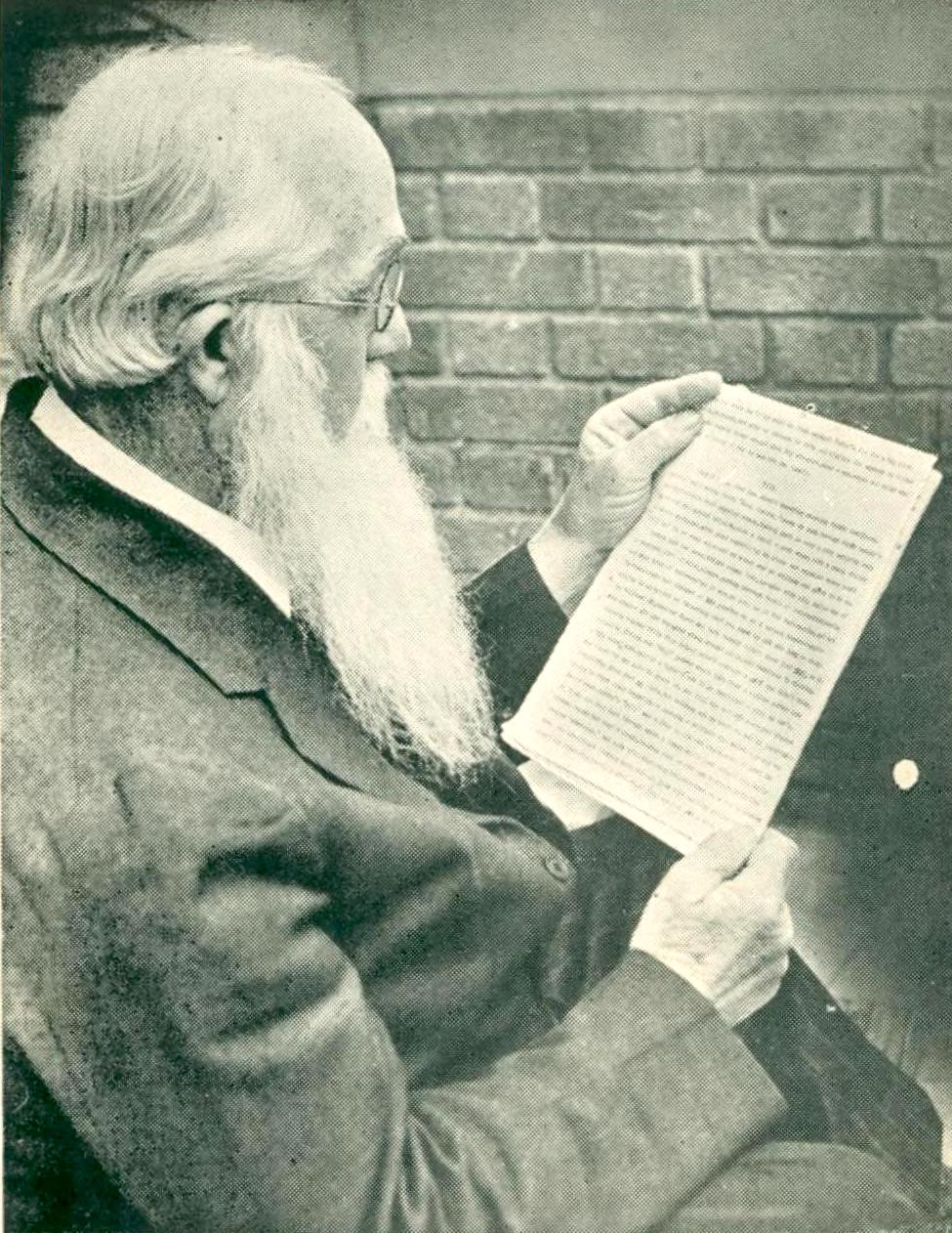 Ernest Vincent Wright depicted in his book Gadsby